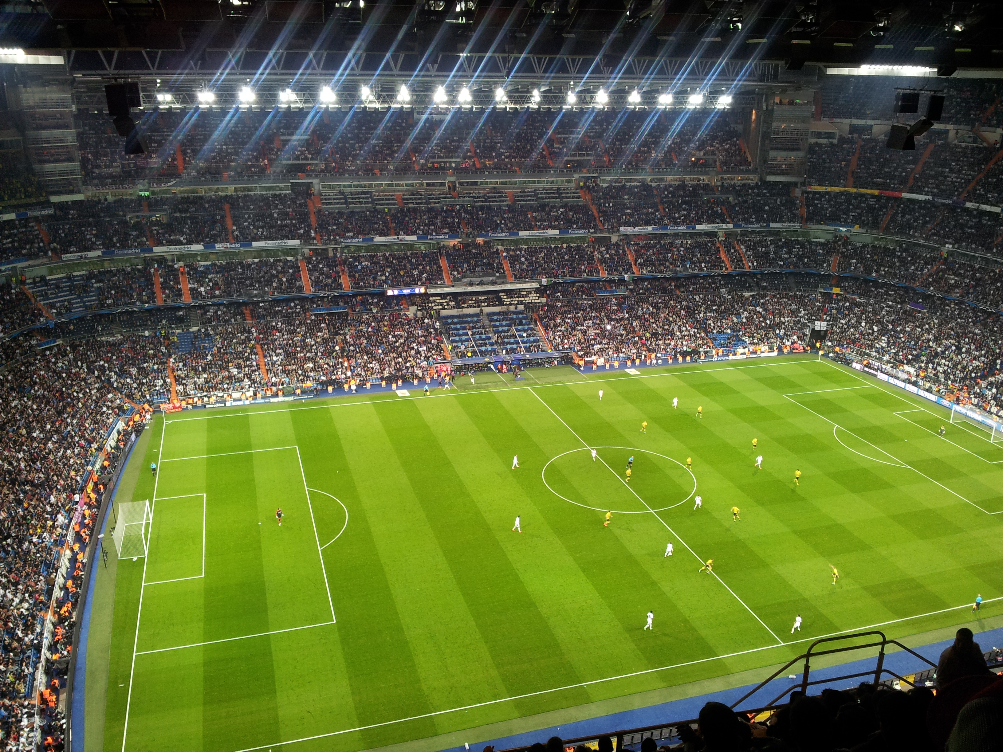 Santiago Bernabéu Stadium, Real Madrid - Borussia Dortmund, UEFA Champions League semi final, 2012/2013